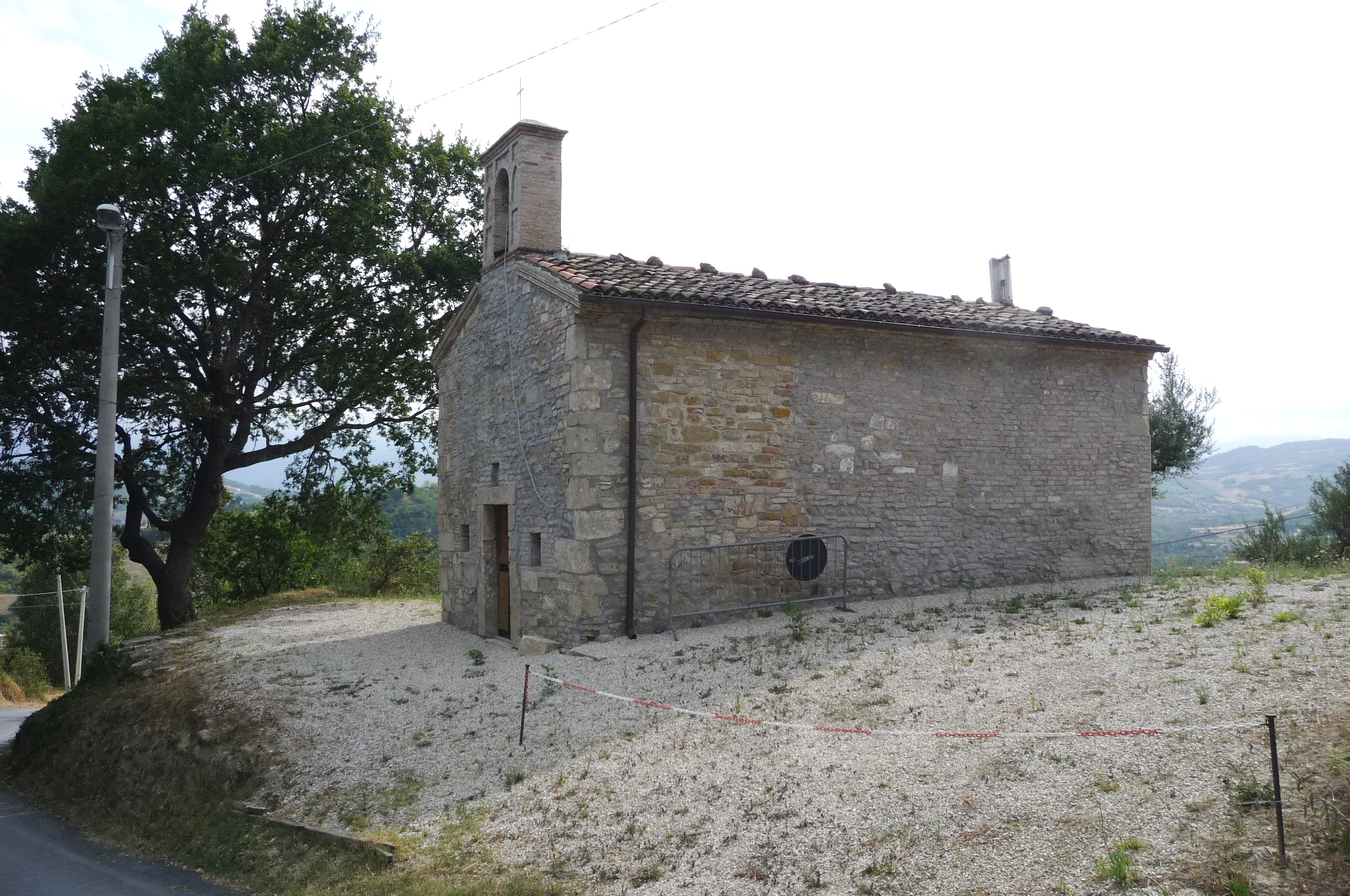 Saint Martin church in Scapriano (village of Teramo, Italy)